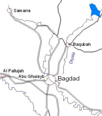 located of Samarra